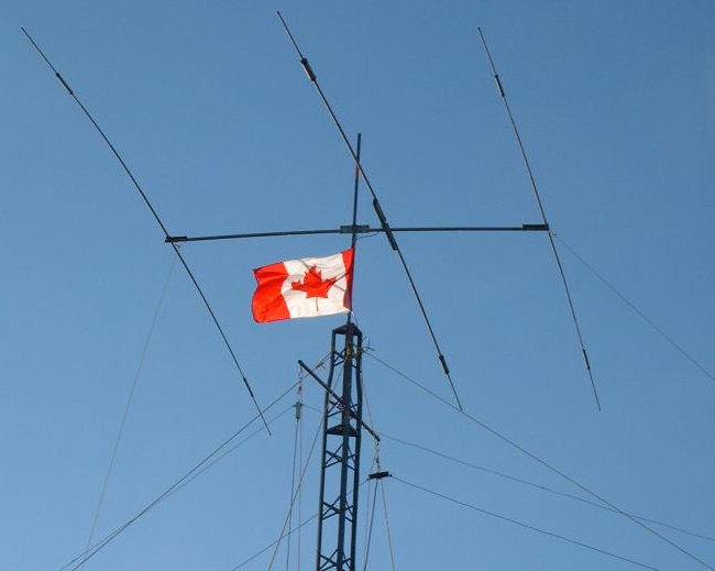 The top of a tower supporting a yagi and several wire antennas. Snapshot by User:aarchiba. The flag is a Canadian flag.